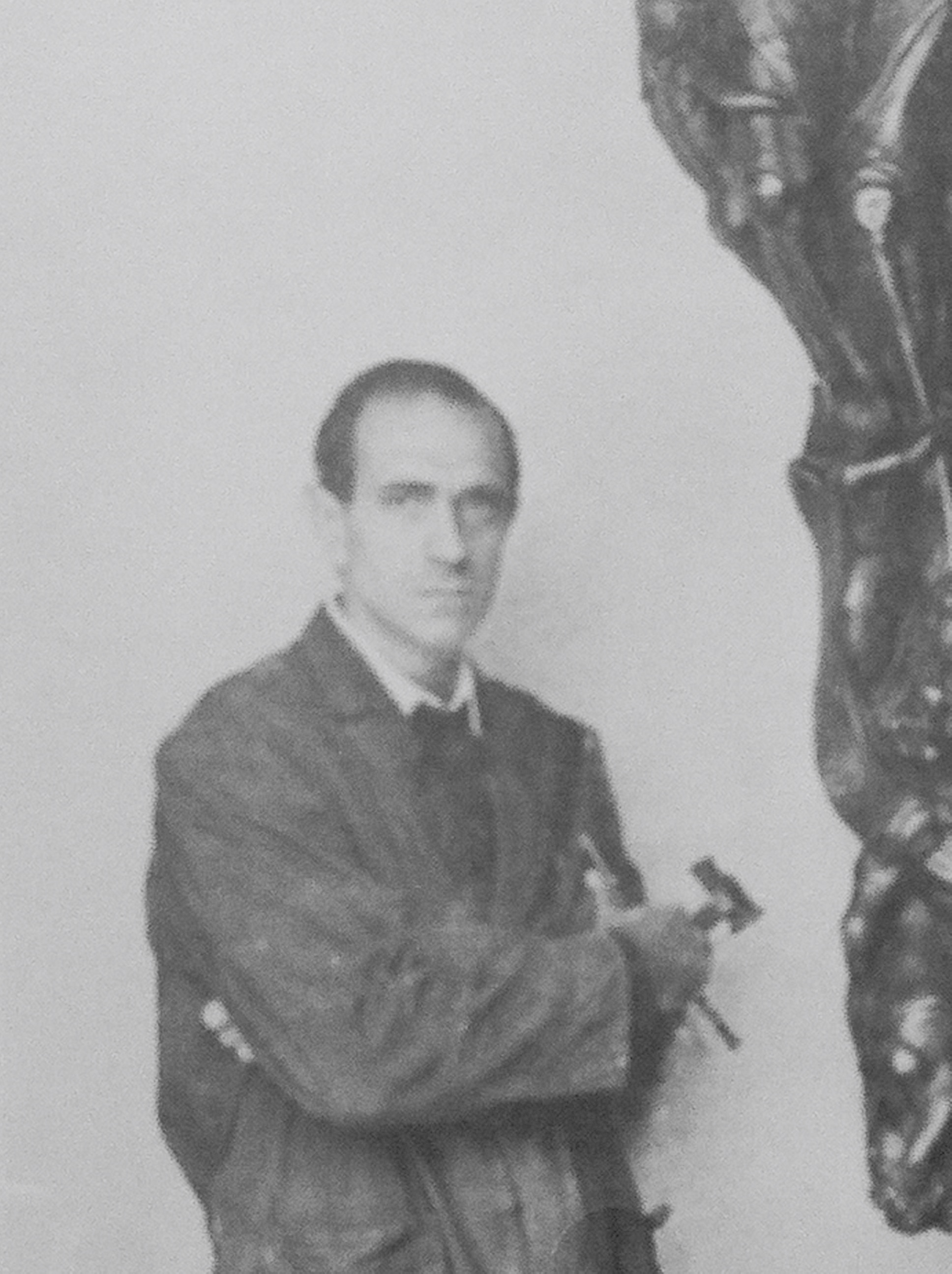 Jose Buscaglia Guillermety